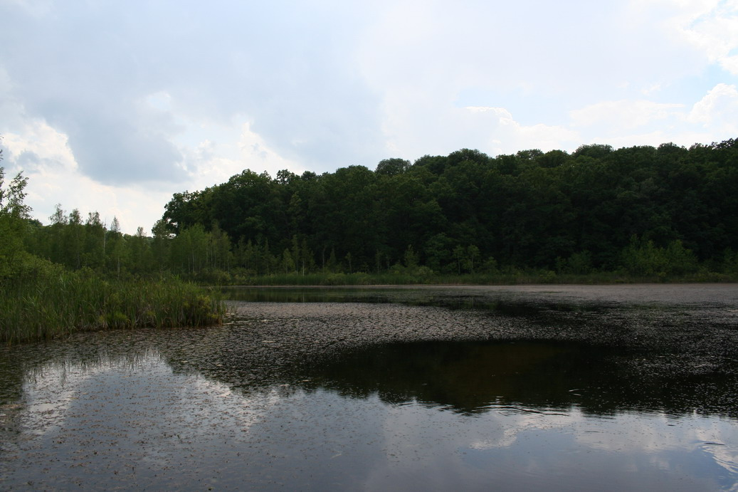 Berestuvatoe lake